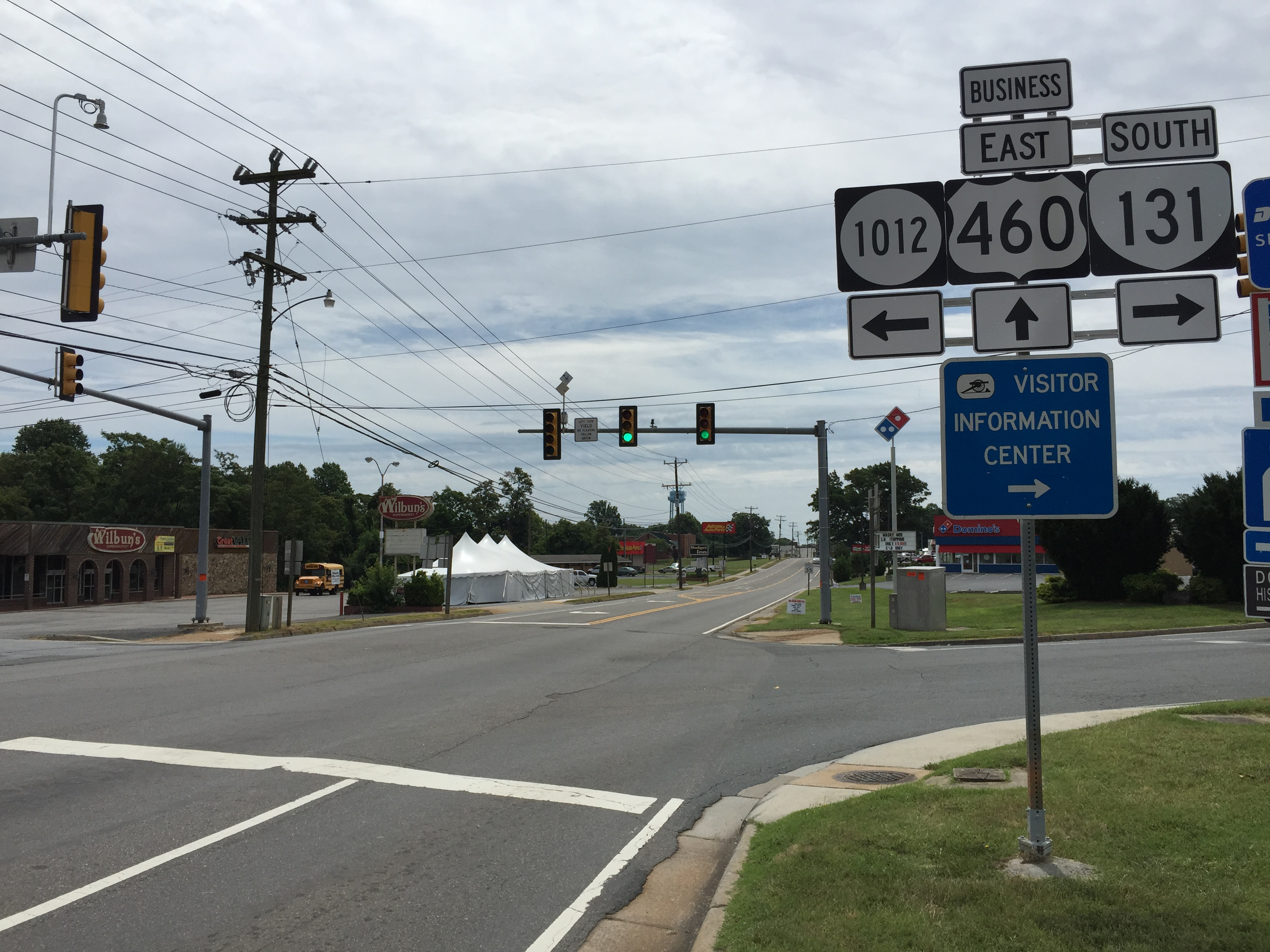 View east along U.S. Route 460 Business (Confederate Boulevard) at Virginia State Route 131 (Court Street) and Jones Street (Virginia State Secondary Route 1012) in Appomattox, Appomattox County, Virginia